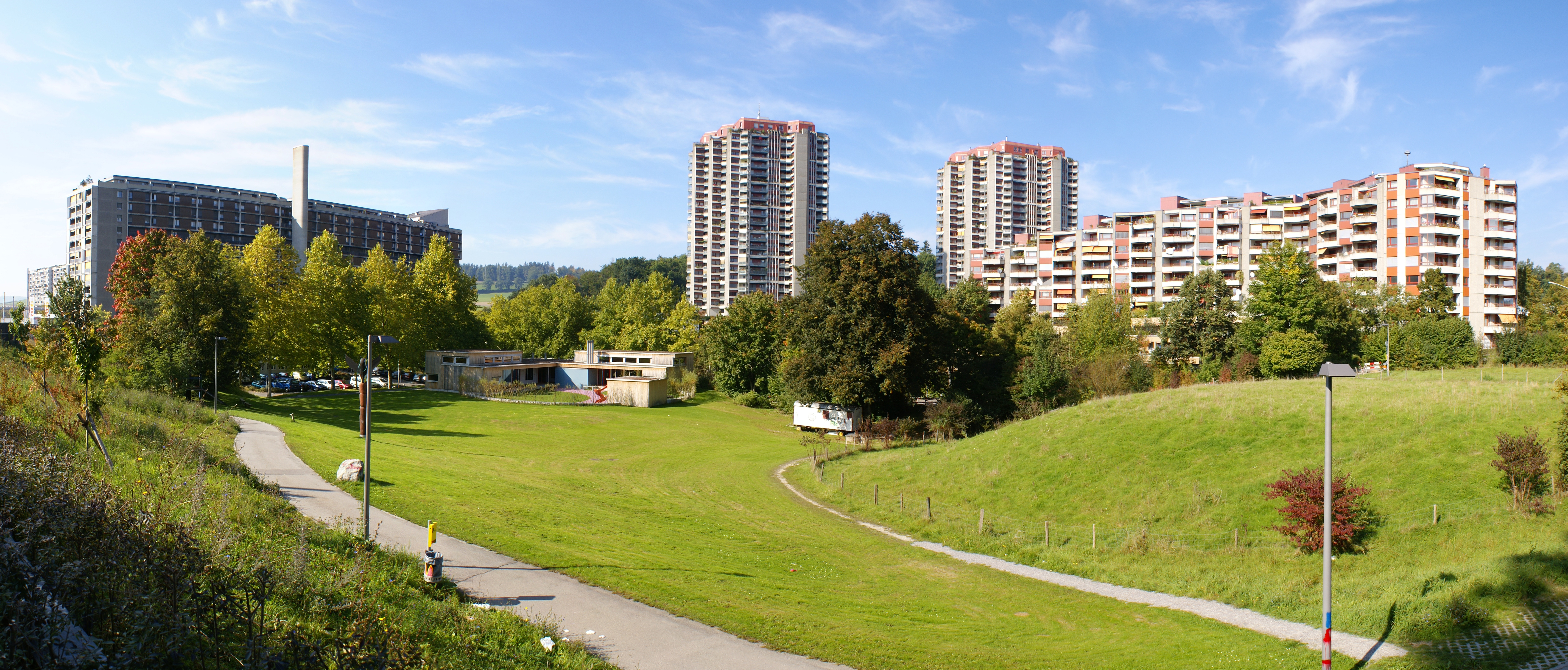 Gäbelbach (left) and Holenacker (right) highrise housing developments in the Bethlehem neighbourhood, Berne, Switzerland.